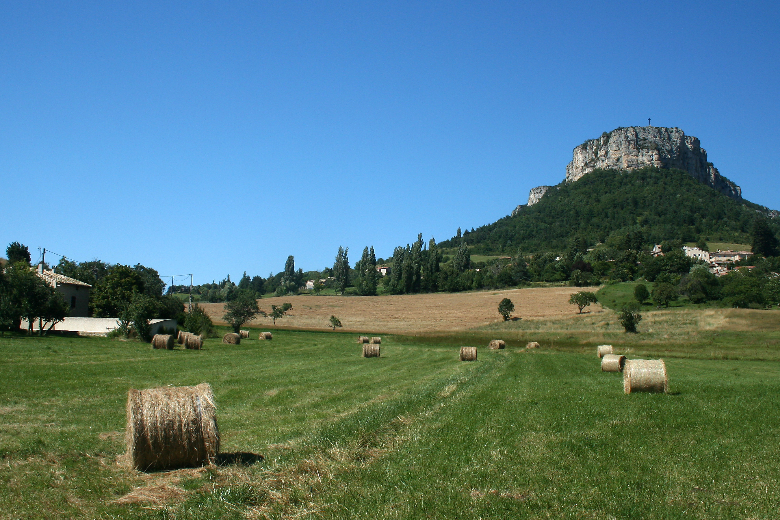 The village of Plan de Baix and the Croix du Vellant mountain in southern Vercors. Drôme department, France.